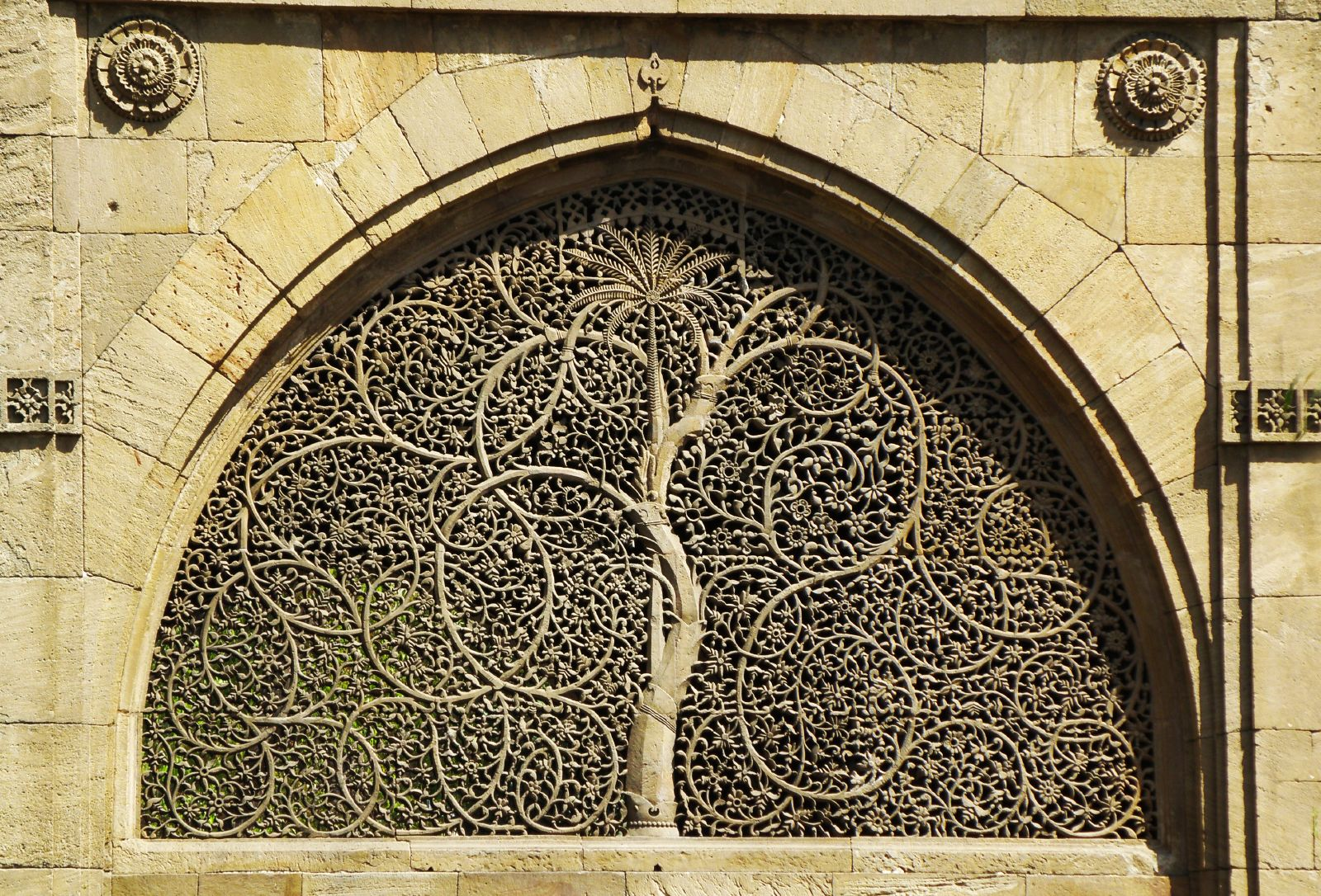 This is probably a very "standard" image(like that of the Taj Mahal) but I am posting it here for the sake of completeness of my collection. Sidi Sayed Mosque: This incomplete mosque belongs to the 16th cent. There are two octagonal columns at the entrance which were supposed to be the minarets but the mosque was never completed. This wall has 5 such jalis. The one shown above also appears on the logo of IIM Ahmedabad. The 3rd or the central jali is missing. I asked a man in the mosque about it. He replied, " Pata nahi kidhar hai. Angrez le gaye the. Ab hogi kahin London mein."(Don't know where it is. The British took it away. Must be somewhere in London now). The jali work is absolutely amazing to look at. I spent about an hour admiring all the work done here.